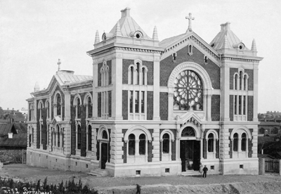 The Lutheran Prayerhouse in Tampere, designed by F.L. Calonius at the turn of the century 1800/1900.